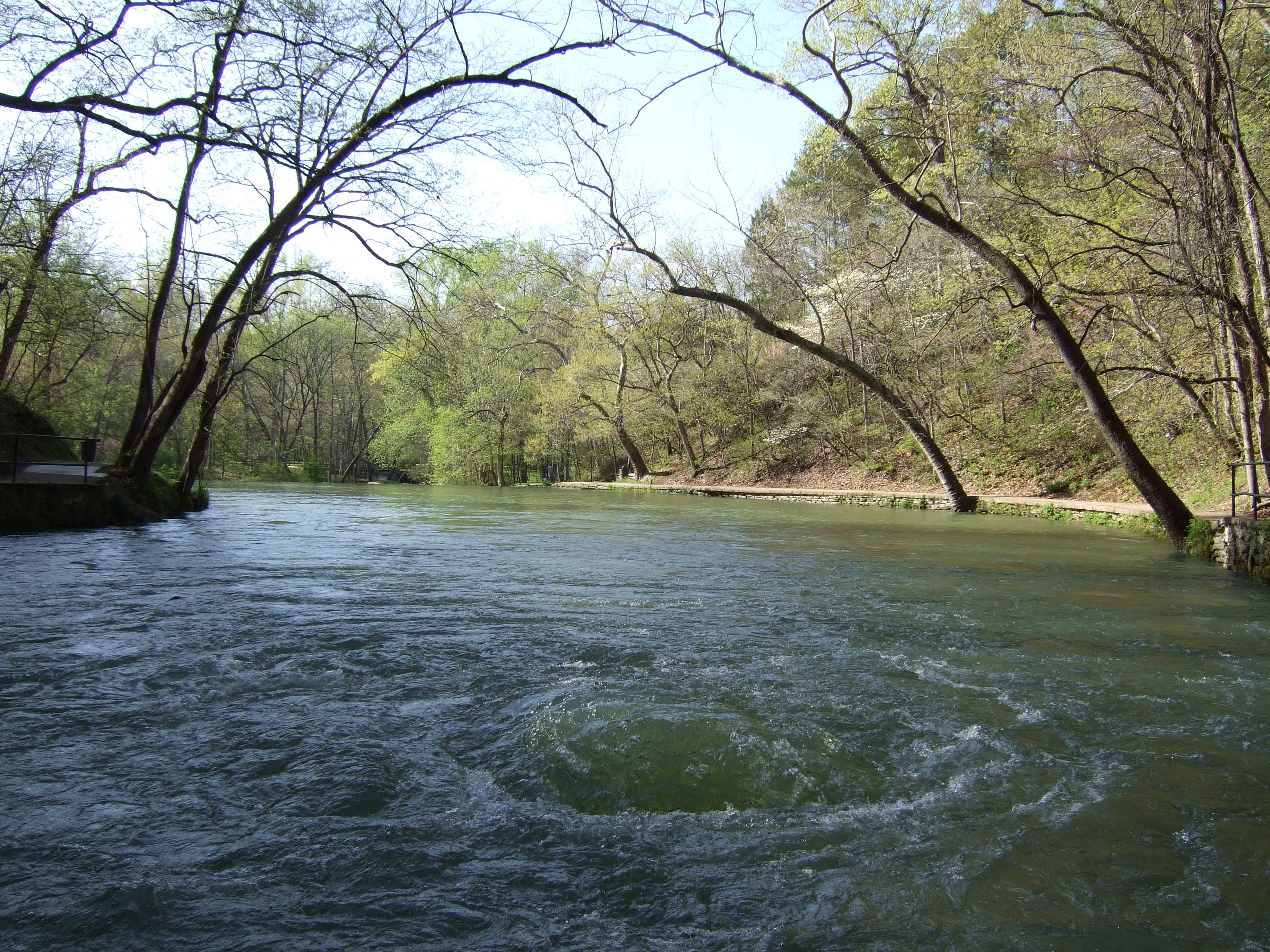 Maramec karst Spring, which gives rise to Meramec river, Missouri